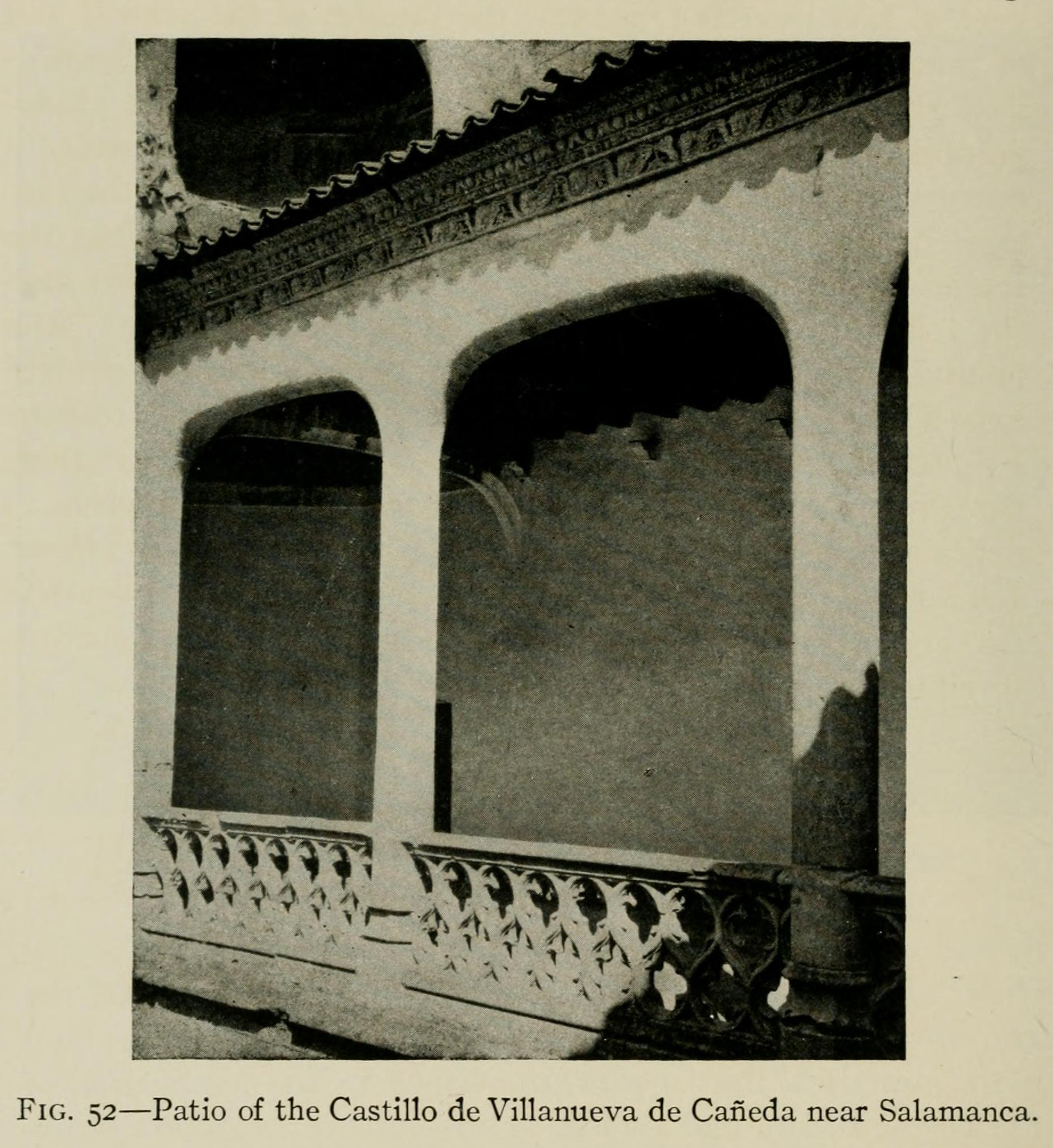 Patio of the Castillo de Villanueva de Cañedo near Salamanca.